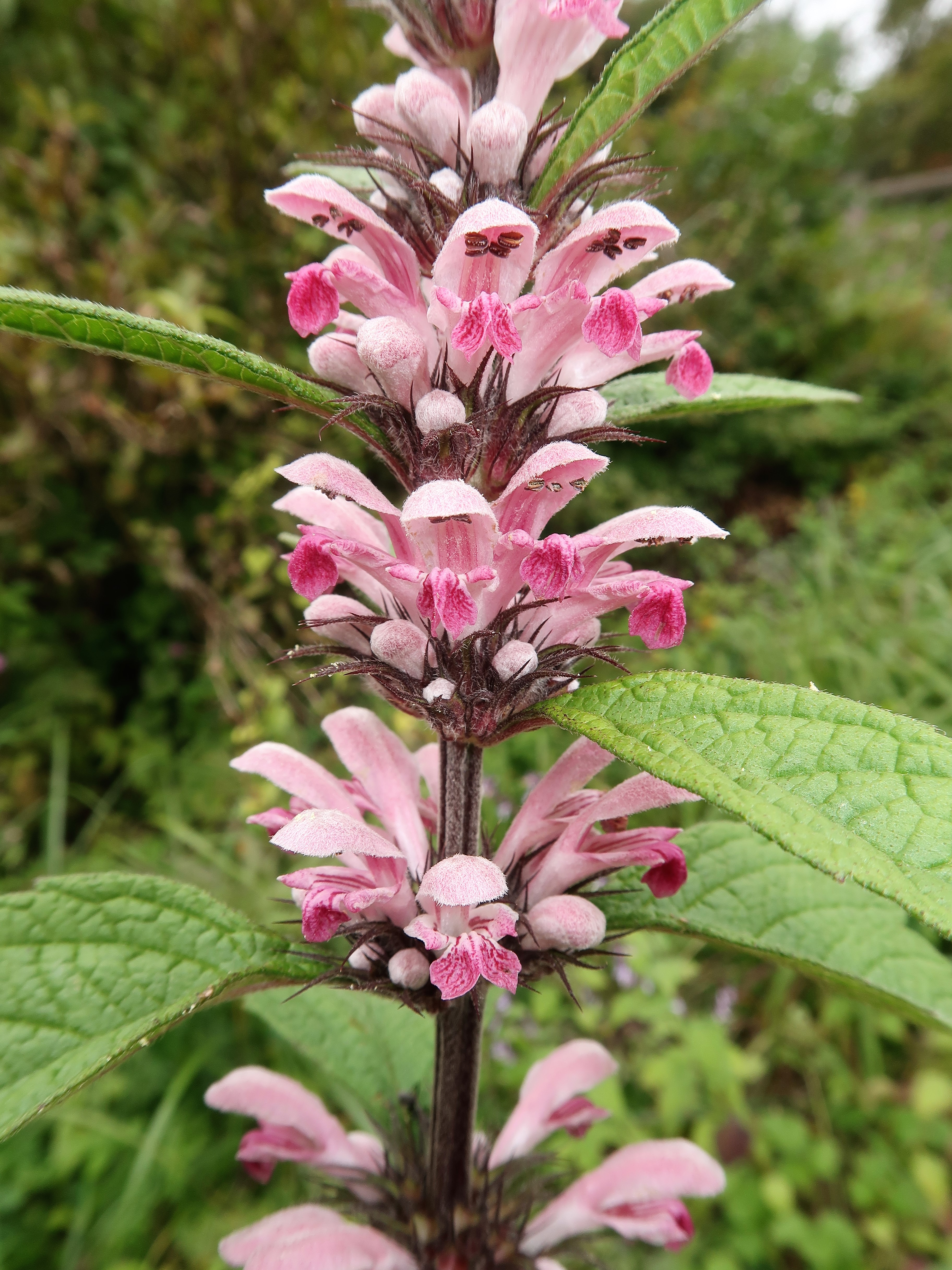 Leonurus macranthus, Naka-dori area, Fukushima pref., Japan